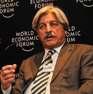 Masood Sharif Khan Khattak at World Economic Forum East Asia 2009